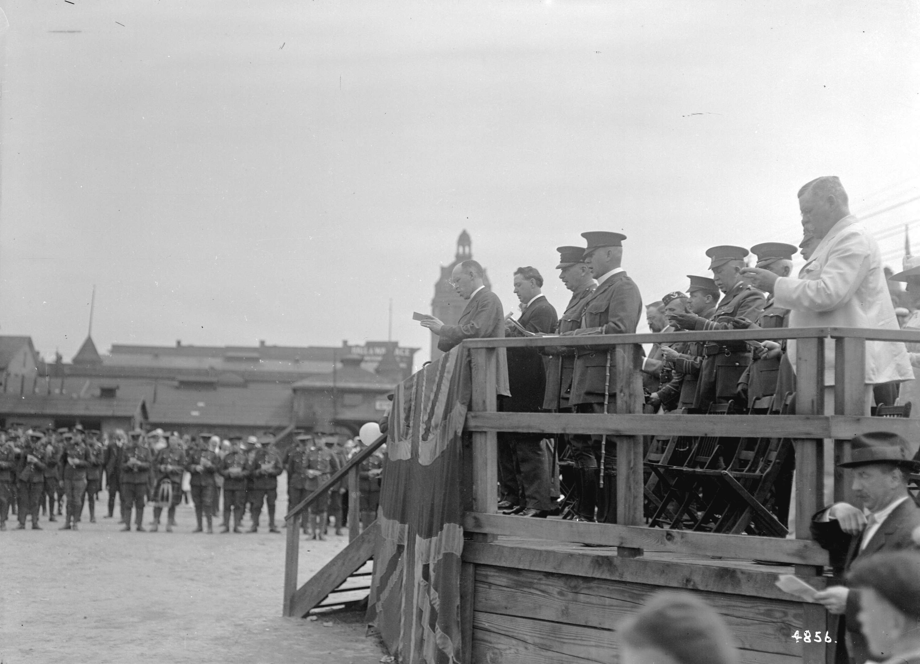 Confederation Day - Cambie Street, Vancouver, British Columbia, Canada. - 1917